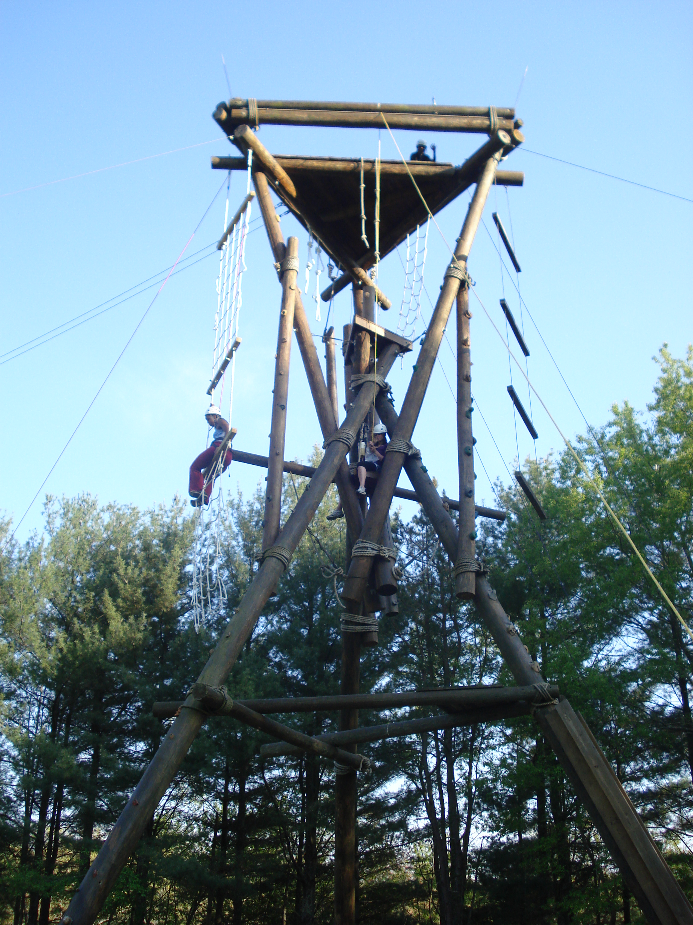 Warren Wilson College's Ropes Course for Outdoor Leadership Training